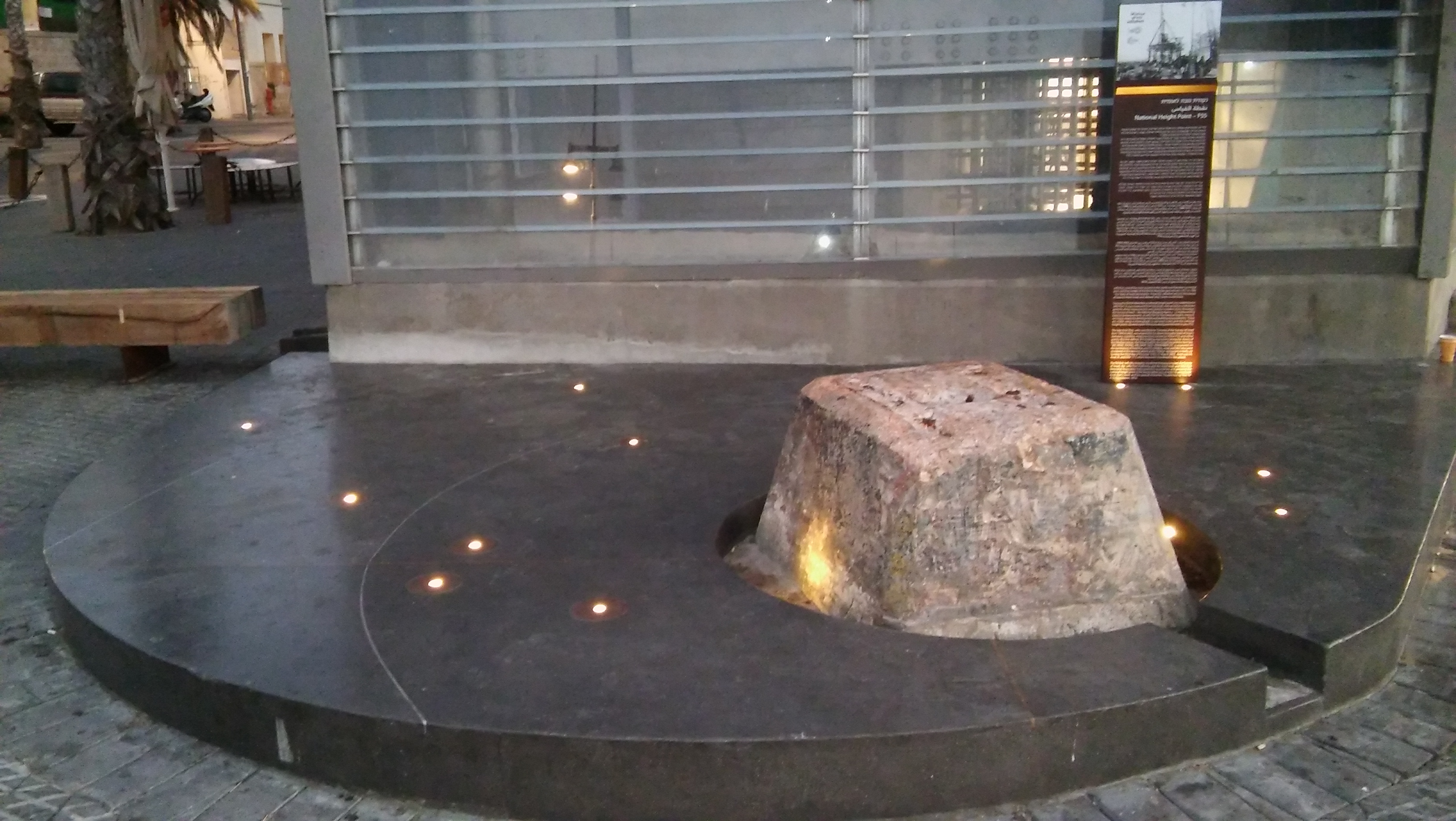 National Height Point F55